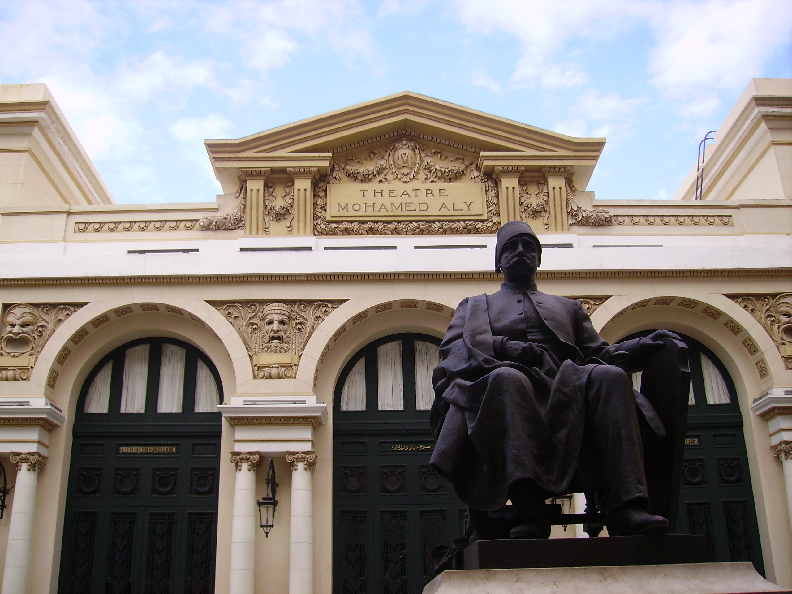 Alexandria Opera House, also known as Sayyed Darwish Theatre (and formerly Mohamed Aly Theatre). 1903 statue, Nubar Pasha, by Denys-Pierre Puech